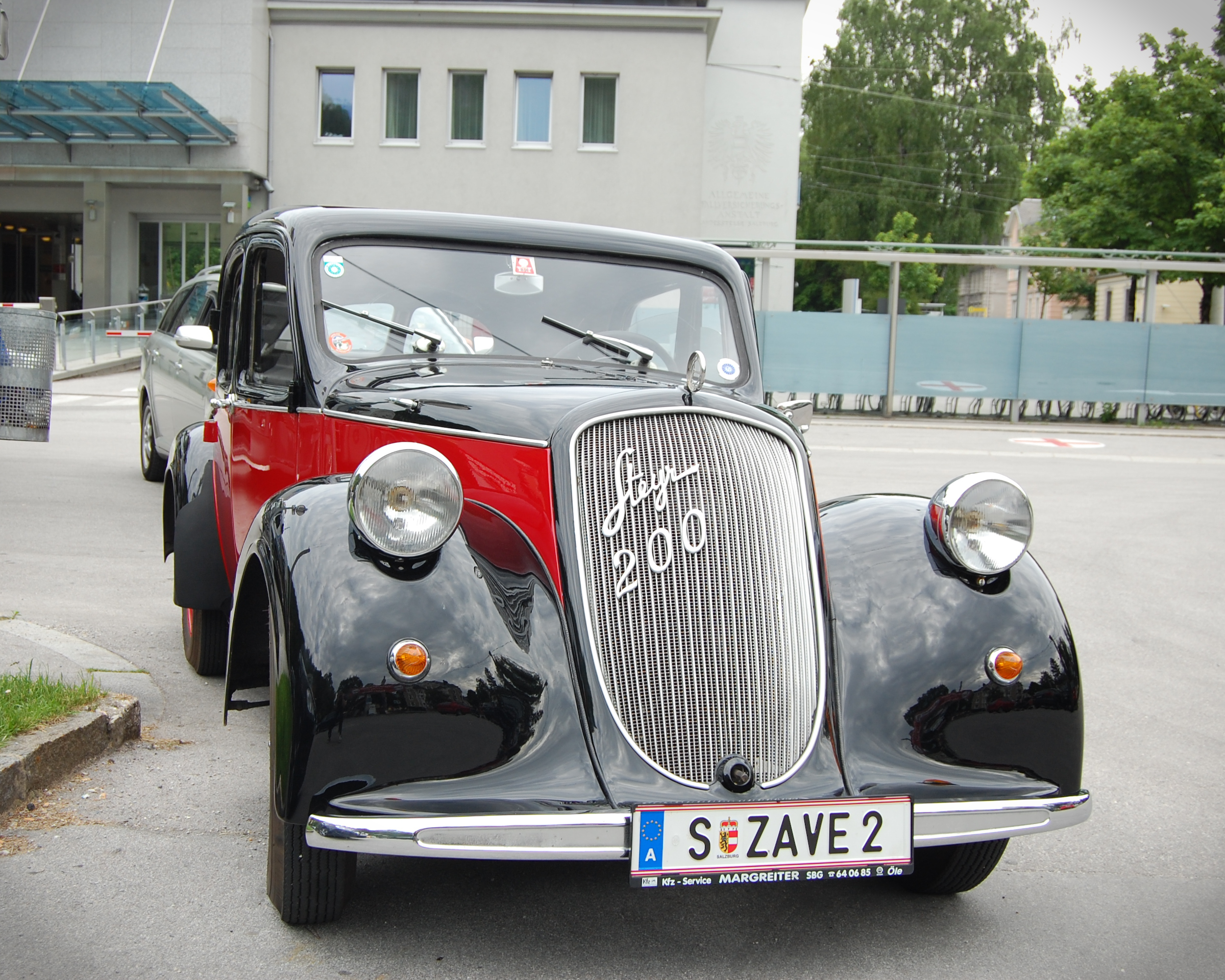 Steyr 200 automobile. Taken in Salzburg, Austria during a racing event.